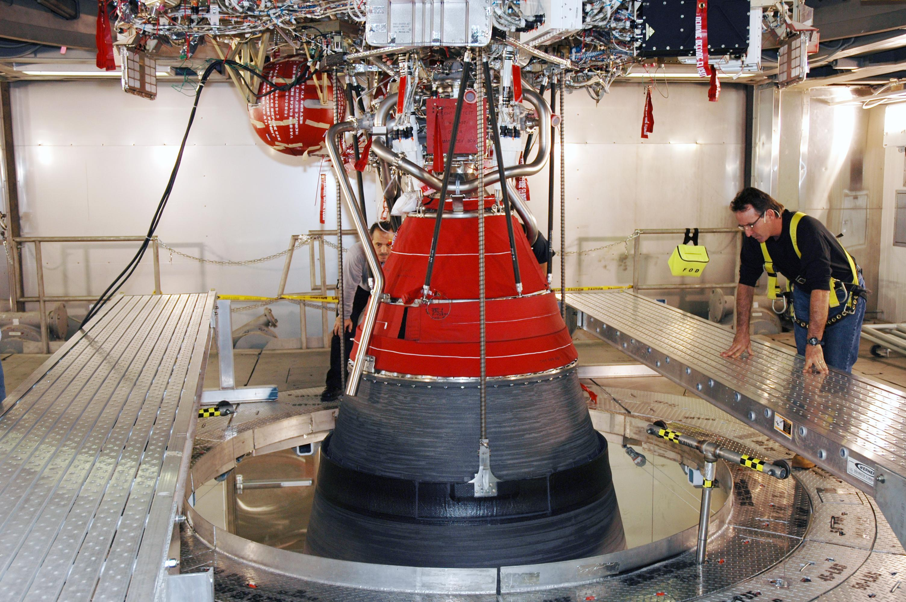 At the Delta Operations Center on Cape Canaveral Air Force Station, Fla., a technician monitors the Boeing Delta IV second stage RL-10B-2 engine nozzle extension during testing. This Delta IV is the launch vehicle for the GOES-N satellite. The Delta IV is the launch vehicle for GOES-N satellite. Geostationary Operational Environmental Satellites (GOES) are sponsored by the National Aeronautics and Space Administration (NASA) and the National Oceanic and Atmospheric Administration (NOAA). GOES-N is the first in the next series of GOES satellites, N-P. The multi-mission GOES series N-P will be a vital contributor to weather, solar and space operations and science. The GOES N-P series will aid activities ranging from severe storm warnings to resource management and advances in science. GOES-N is scheduled to launch May 4 from Cape Canaveral Air Force Station, Fla.